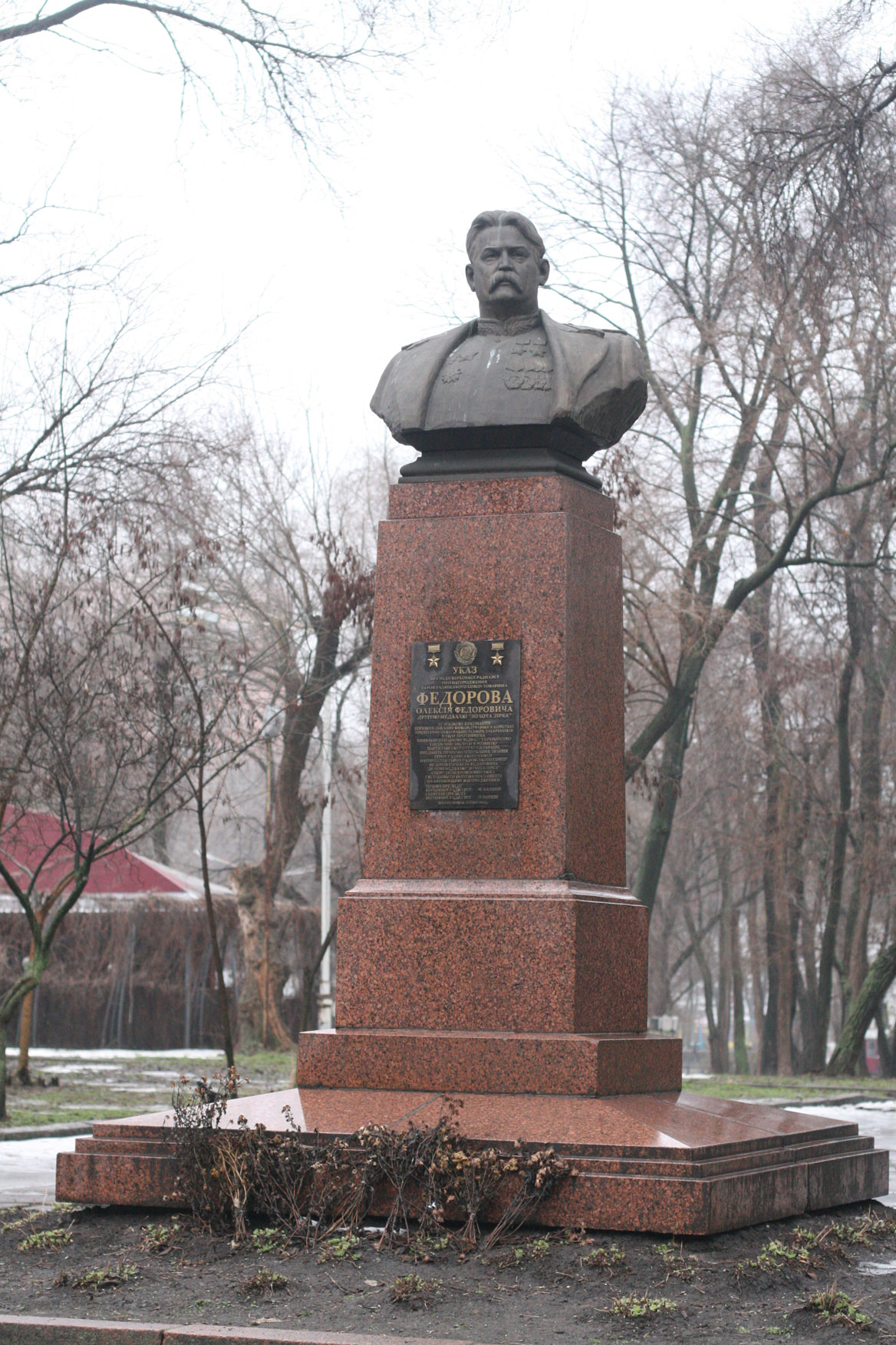 Bust of Alexei Fedorovich Fedorov (Олексія Федоровича Федорова) in park next to Karla Marksa Prospect, Dnepropetrovsk.